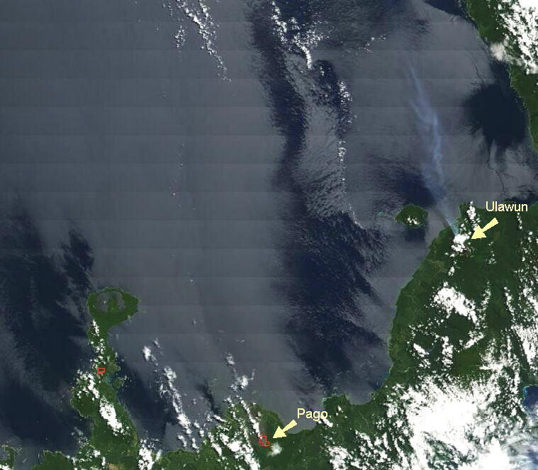 Steam plume from Ulawun volcano, Papua New Guinea. Landsat image.